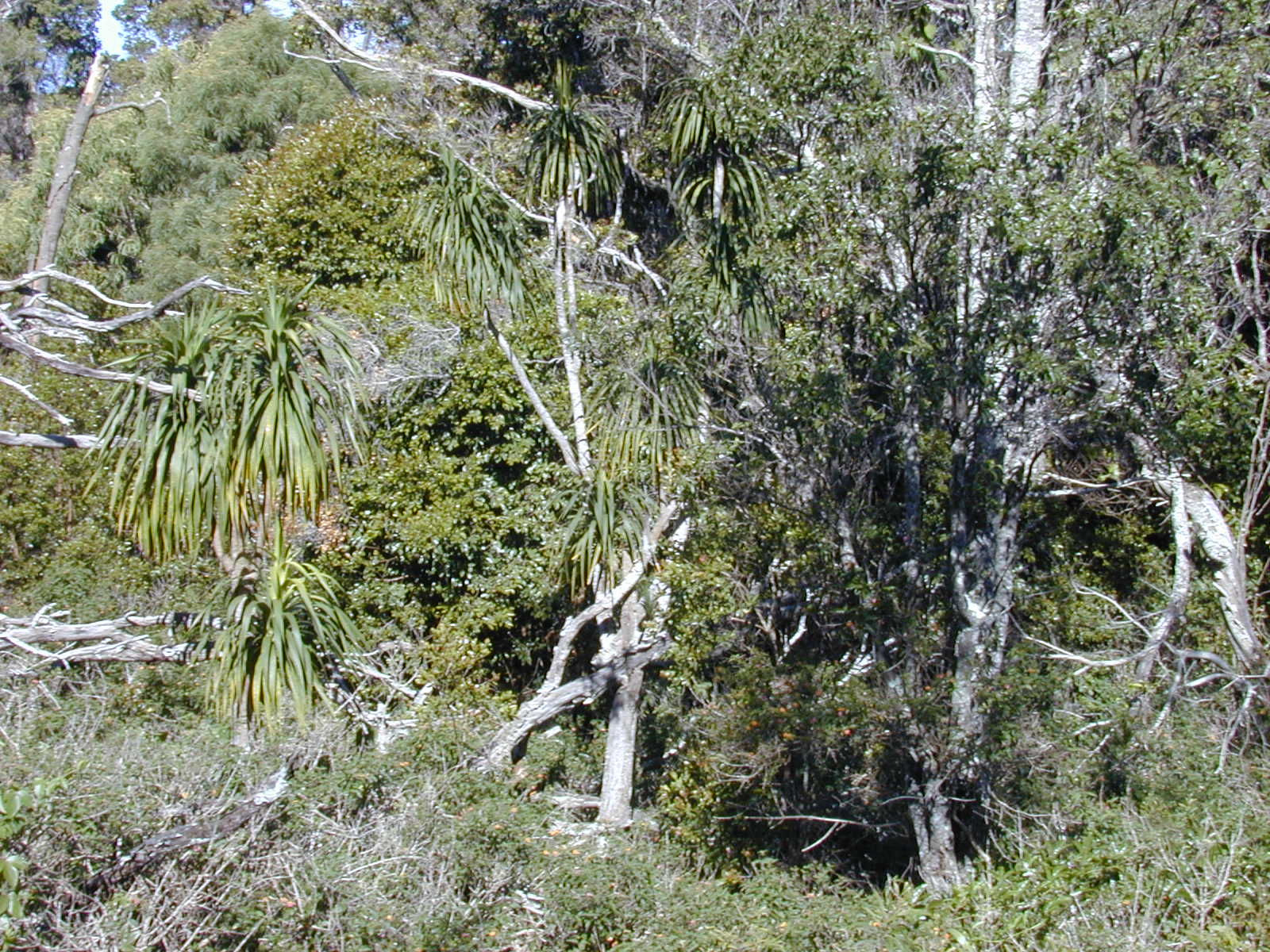 Pleomele aurea (habit). Location: Kauai, Kokee